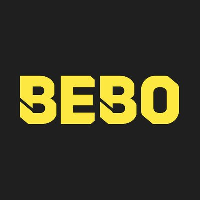 Logo for Bebo